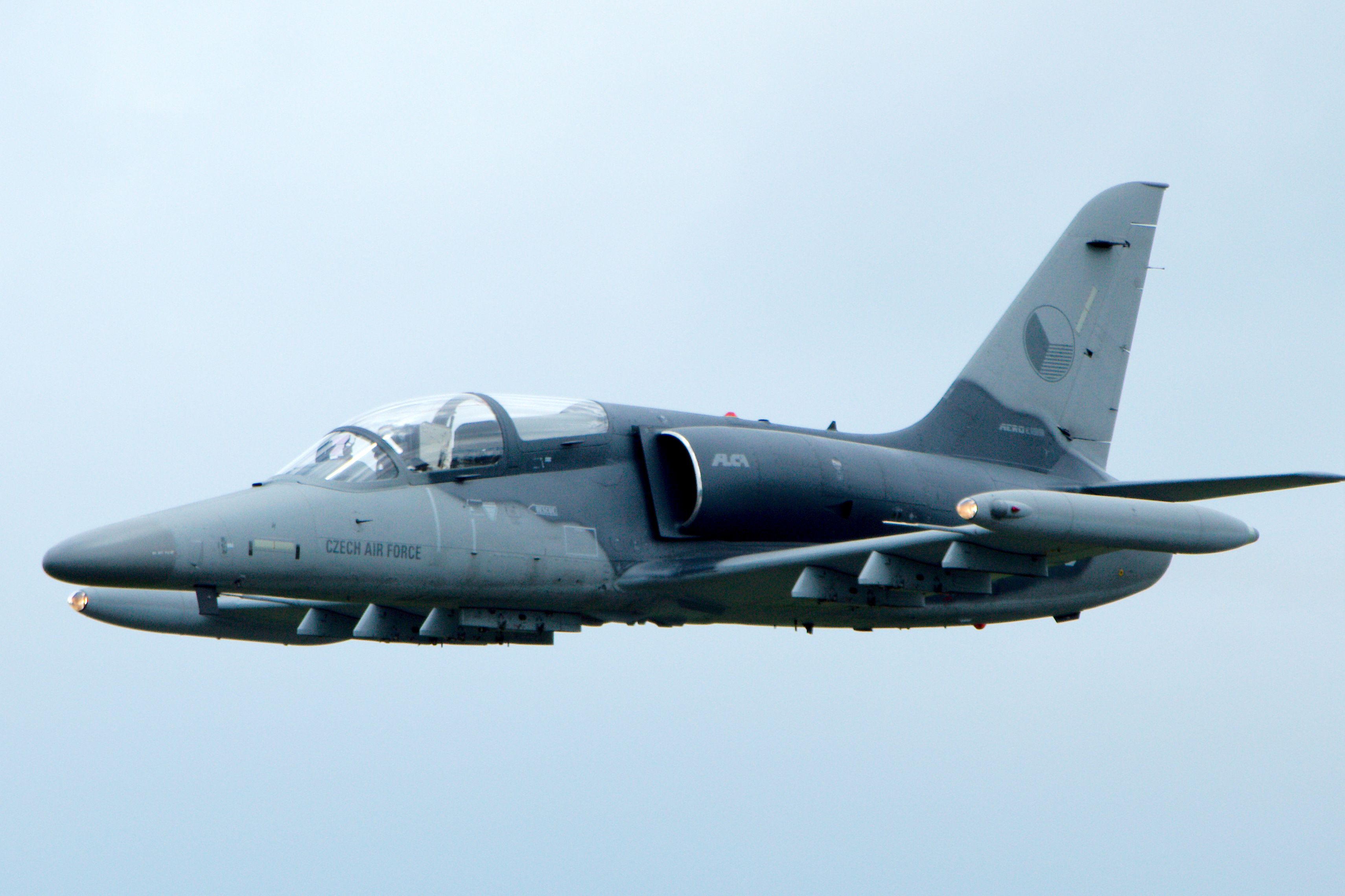 Aero L-159A at Airpower 2011